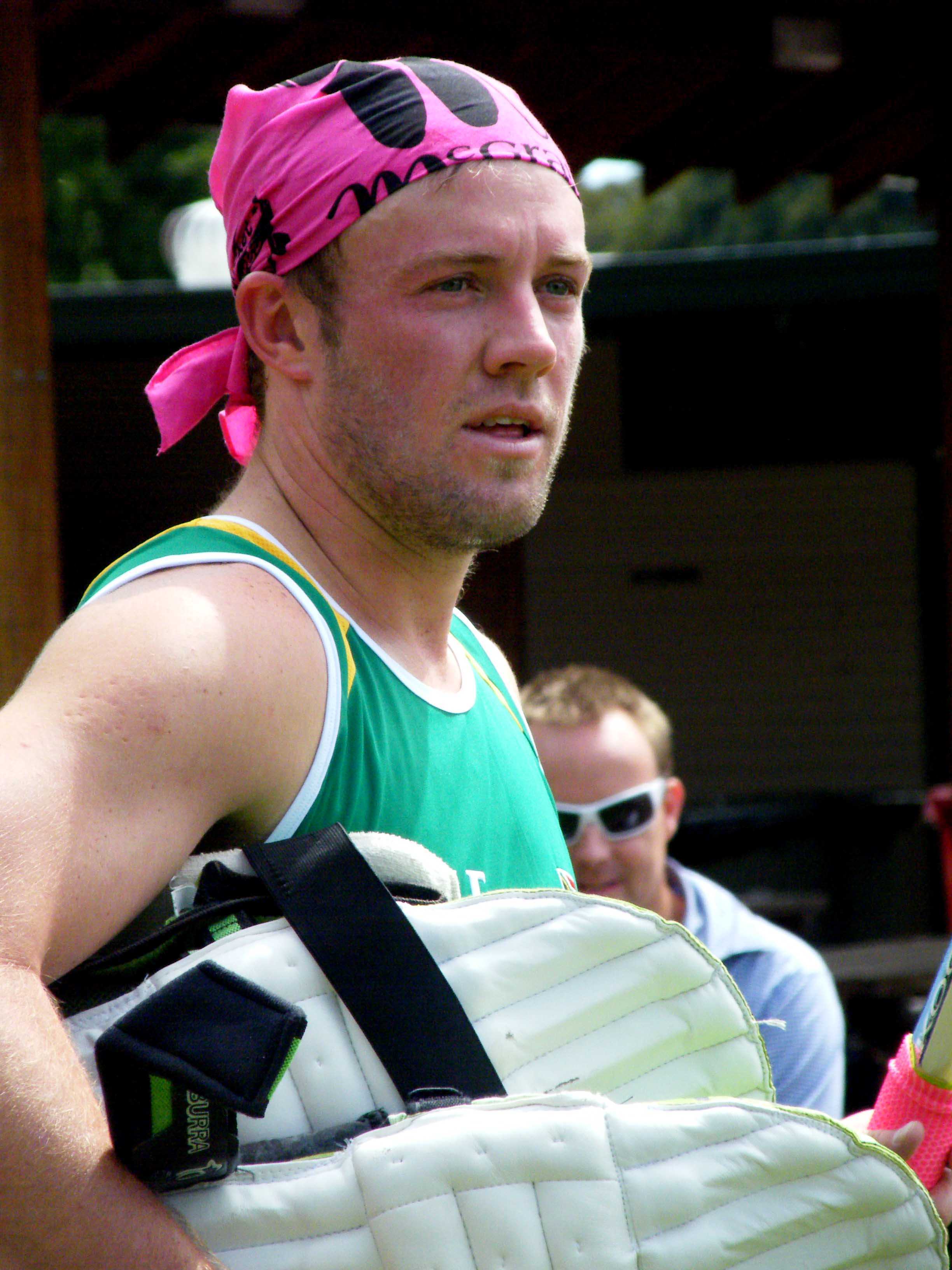 A B De Villiers - New Years Day Training at the Sydney Cricket Ground 2009.